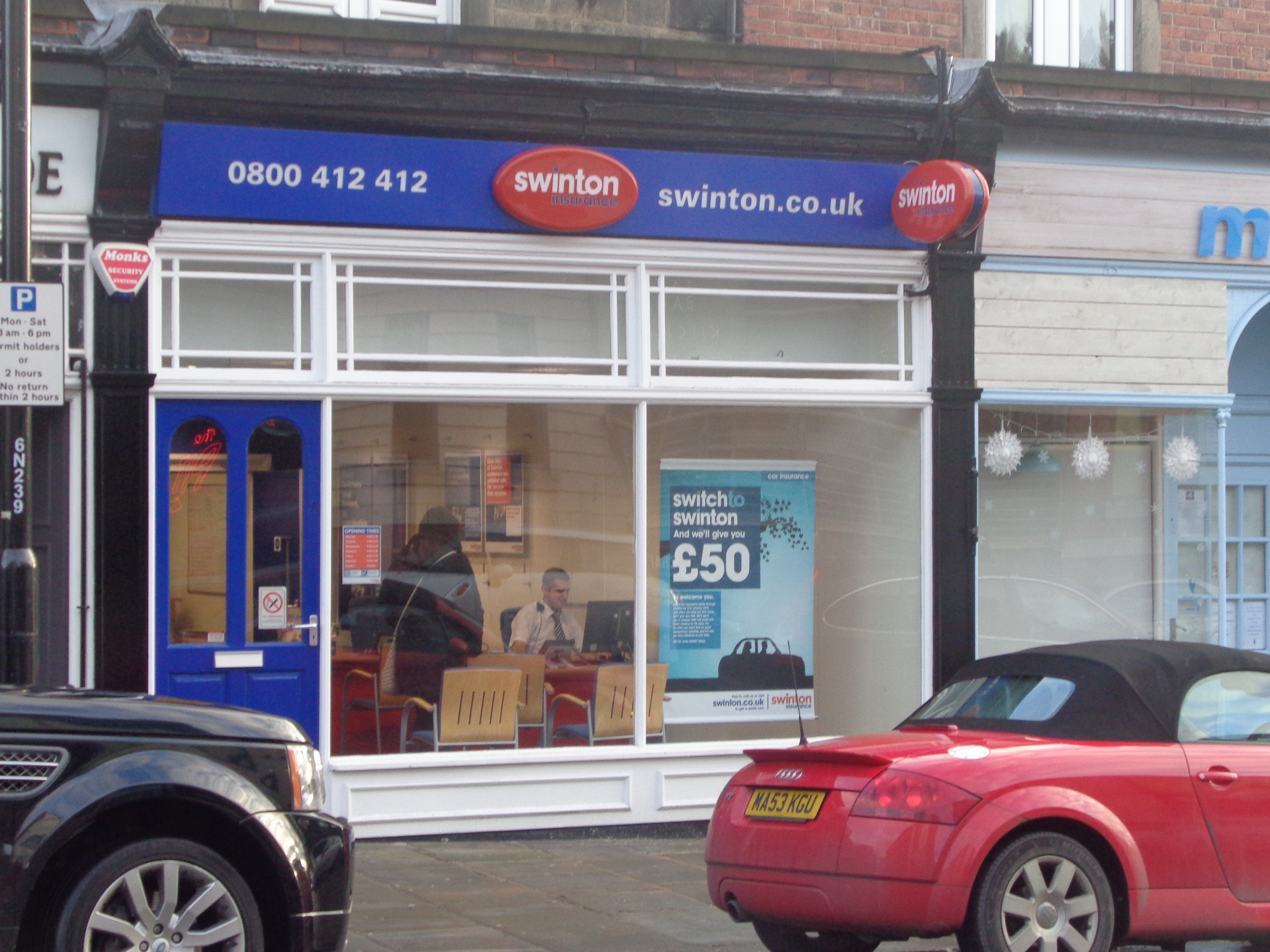 Swinton Insurance, North Lane, Headingley, Leeds, West Yorkshire. Taken on the afternoon of Tuesday the 30th of December 2014.